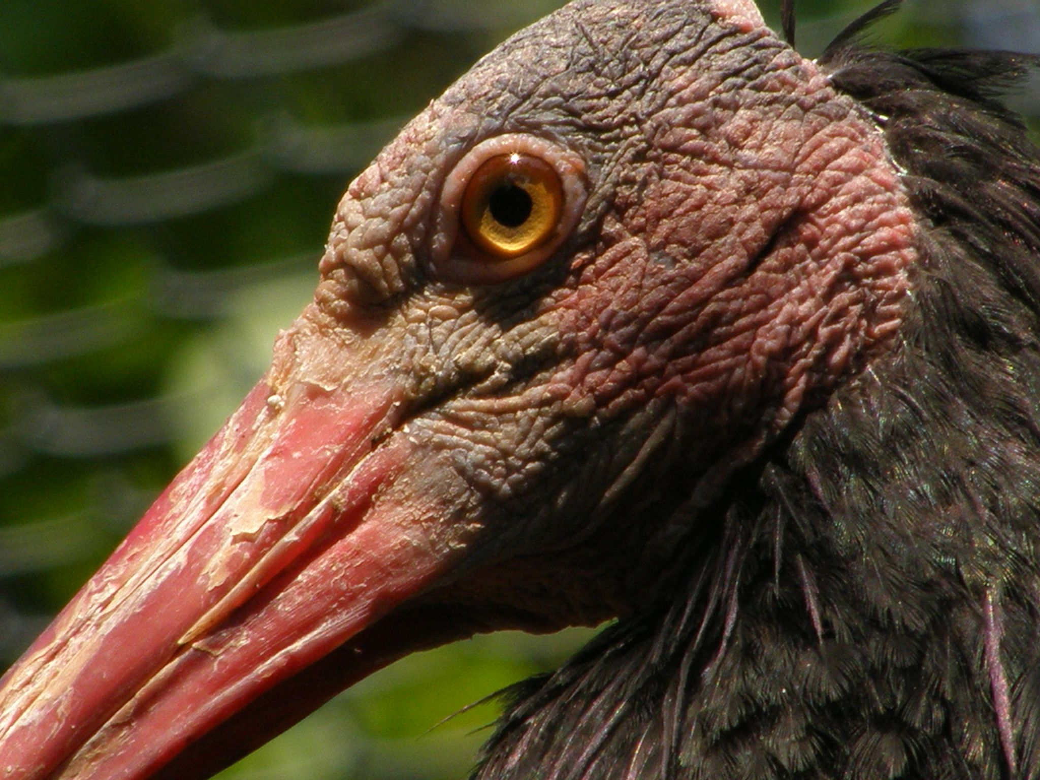 Northern Bald Ibis; close-up showing the head an adult at Duisburg Zoo, Germany